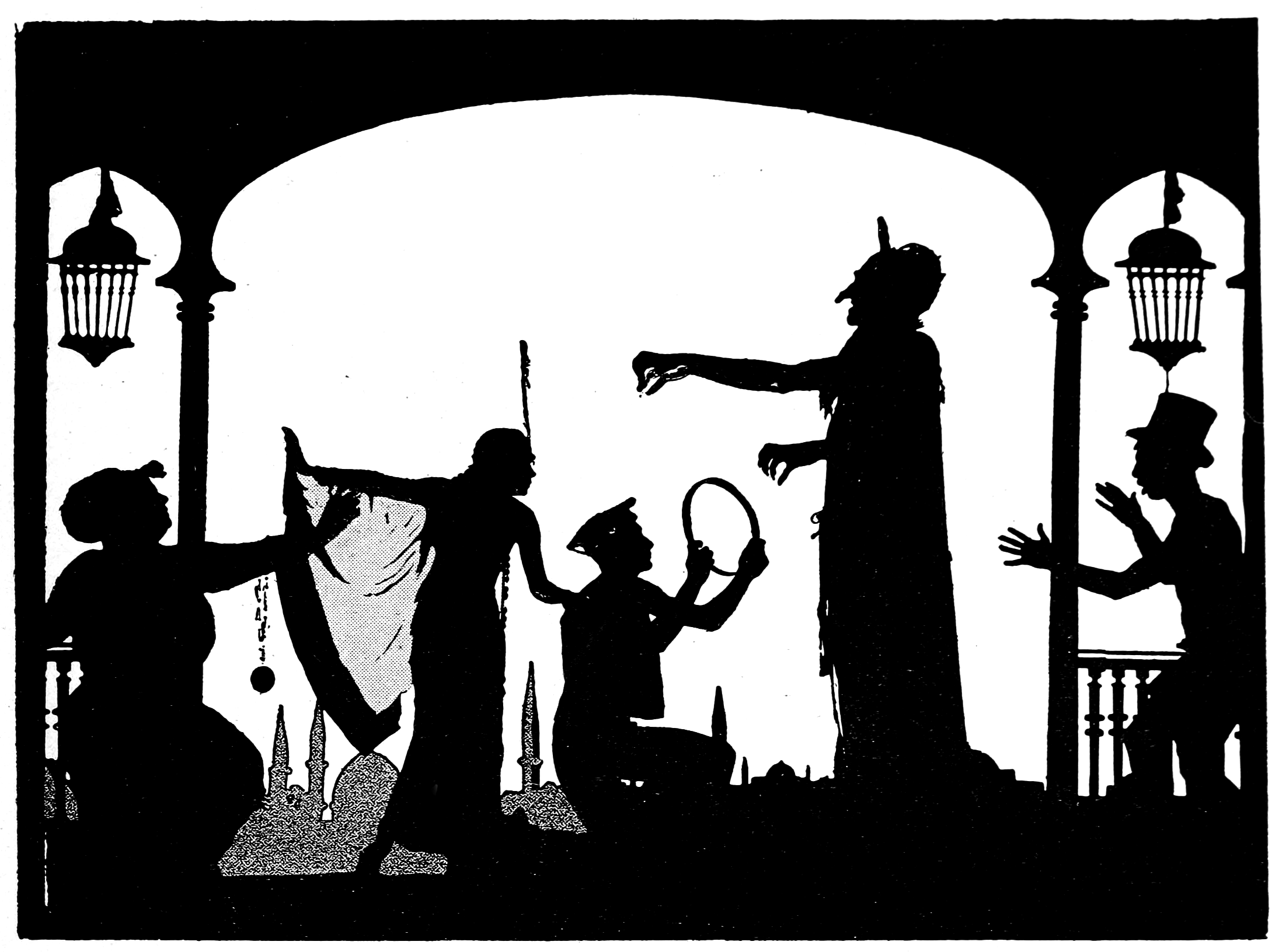 Silhouette by C. Allan Gilbert for the animated film “Inbad the Tailor,” 1916. “The jinni appears in answer to the call of Inbad’s wishing ring.”